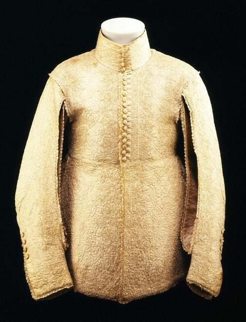 Doublet, 1635–1640 V&A Museum no. 177-1900 Techniques – Glazed linen, embroidered with linen thread Place – England Dimensions – Width 71.12 cm (maximum, elbow to elbow), Depth 44.5 cm (maximum) Object Type – Doublets formed part of the ensemble of clothing worn by men in the early 17th century. A pair of breeches in matching fabric would have been worn with this doublet, with a cape to complete the gentleman's outfit. Materials & Making – The linen has not been dyed but bleached and glazed instead to give a uniform colour and a firm texture on which to embroider. Back stitch, French knots and couching in fine linen thread comprise a pattern of geometric and floral motifs. Linen thread, hand plaited and sewn over a wooden core in a technique known as passementerie, forms the decorative buttons. Time – A doublet of the late 1630s had a waistline at the natural level with large flaps or tabs, as they were known, falling below. Typical of the period, are the back seam and seams of the sleeves. They have been deliberately left unstitched to allow the billowing shirt to show through from underneath. Fashions of the 1630s featured a high collar over which the falling band of fine linen and lace could drape becomingly.